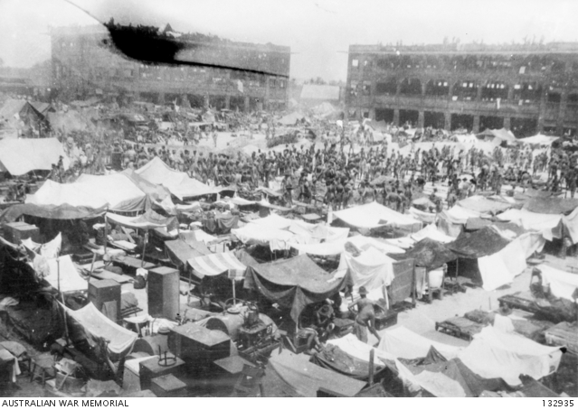 Changi, Singapore Island. 2nd AIF and British POW in Selarang Barracks Square. Foreground: makeshift shelters constructed by cooks. Middle distance: troops queuing at the Regimental Aid Post (RAP) (note Red Cross) for what little treatment there was to be had. (Same image at 106530.)